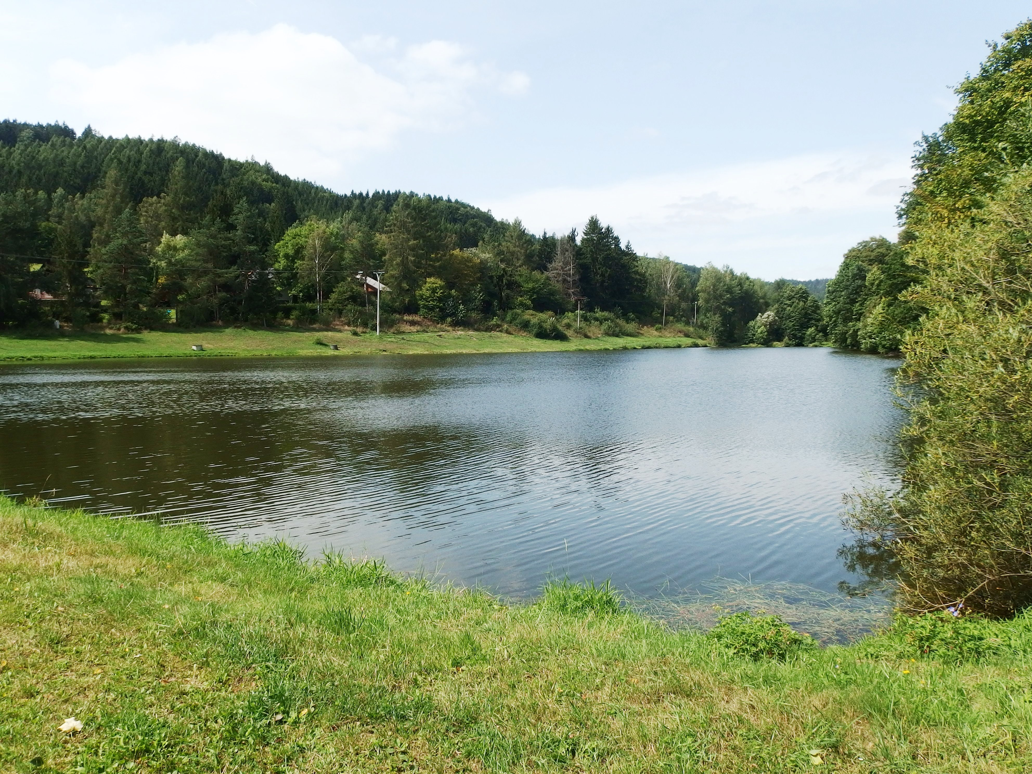 Borušov, Svitavy District, Czechia, part Svojanov.